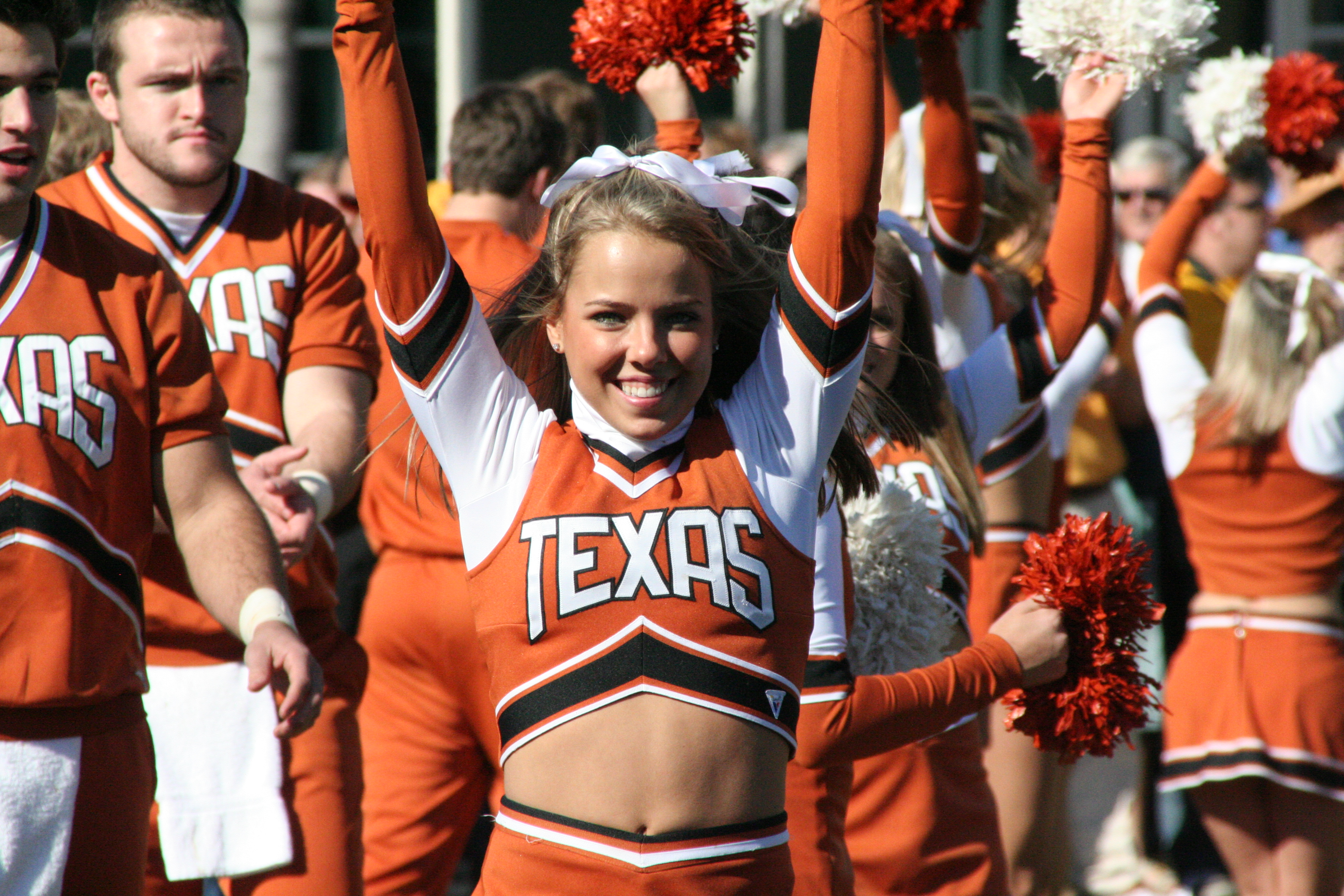 UT Cheerleaders perform at the Battle of the Bands (2007-12-26) prior to the 2007 Holiday Bowl between The University of Texas Longhorns and the Arizona State Sun Devils